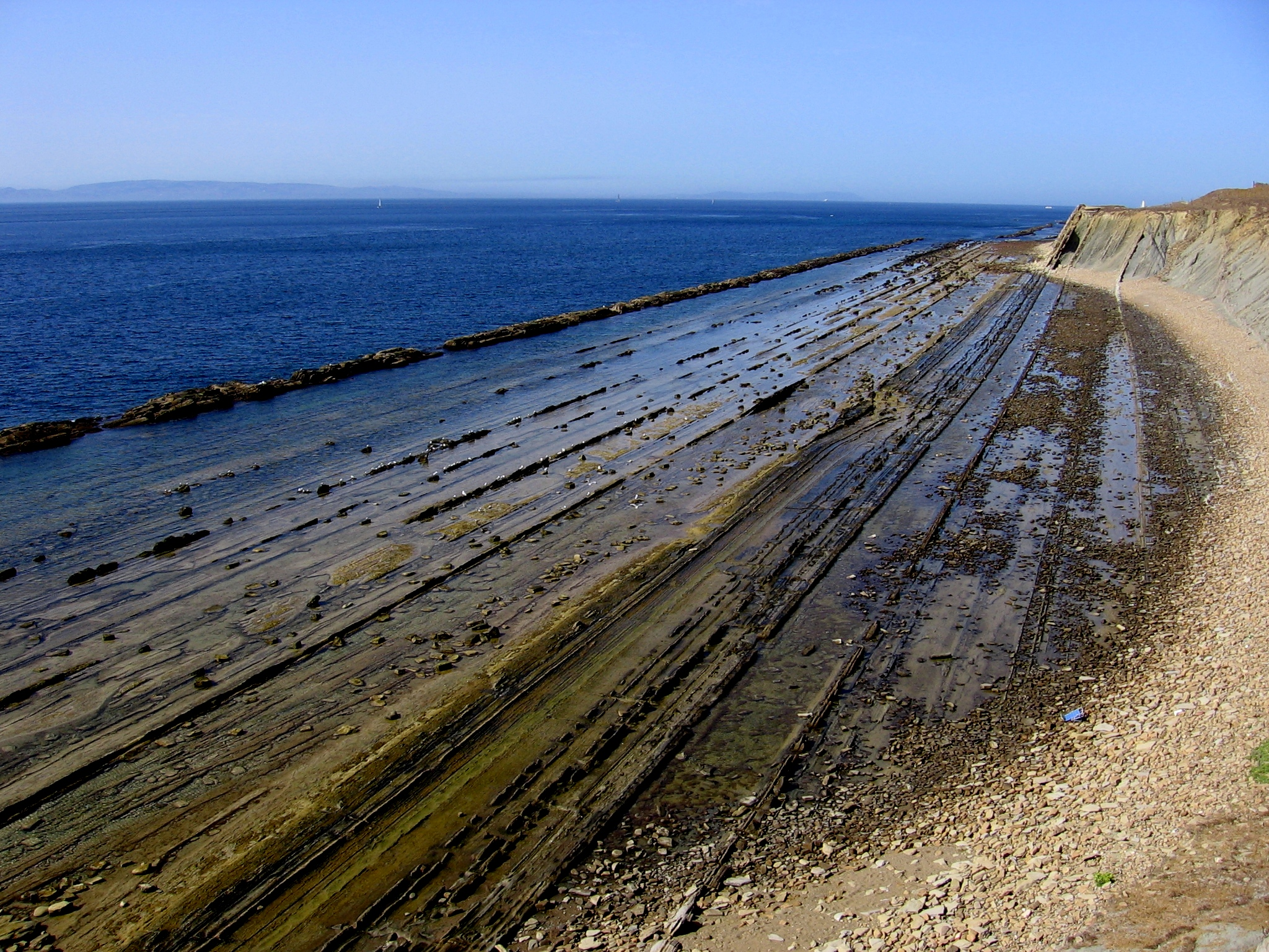 Almost-vertical layers of marl and micaceous sandstone (of late Oligocene to Burdigalian age) exposed in an abrasion platform in the Parque Natural del Estrecho at the Strait of Gibraltar coast in Andalusia, Spain.